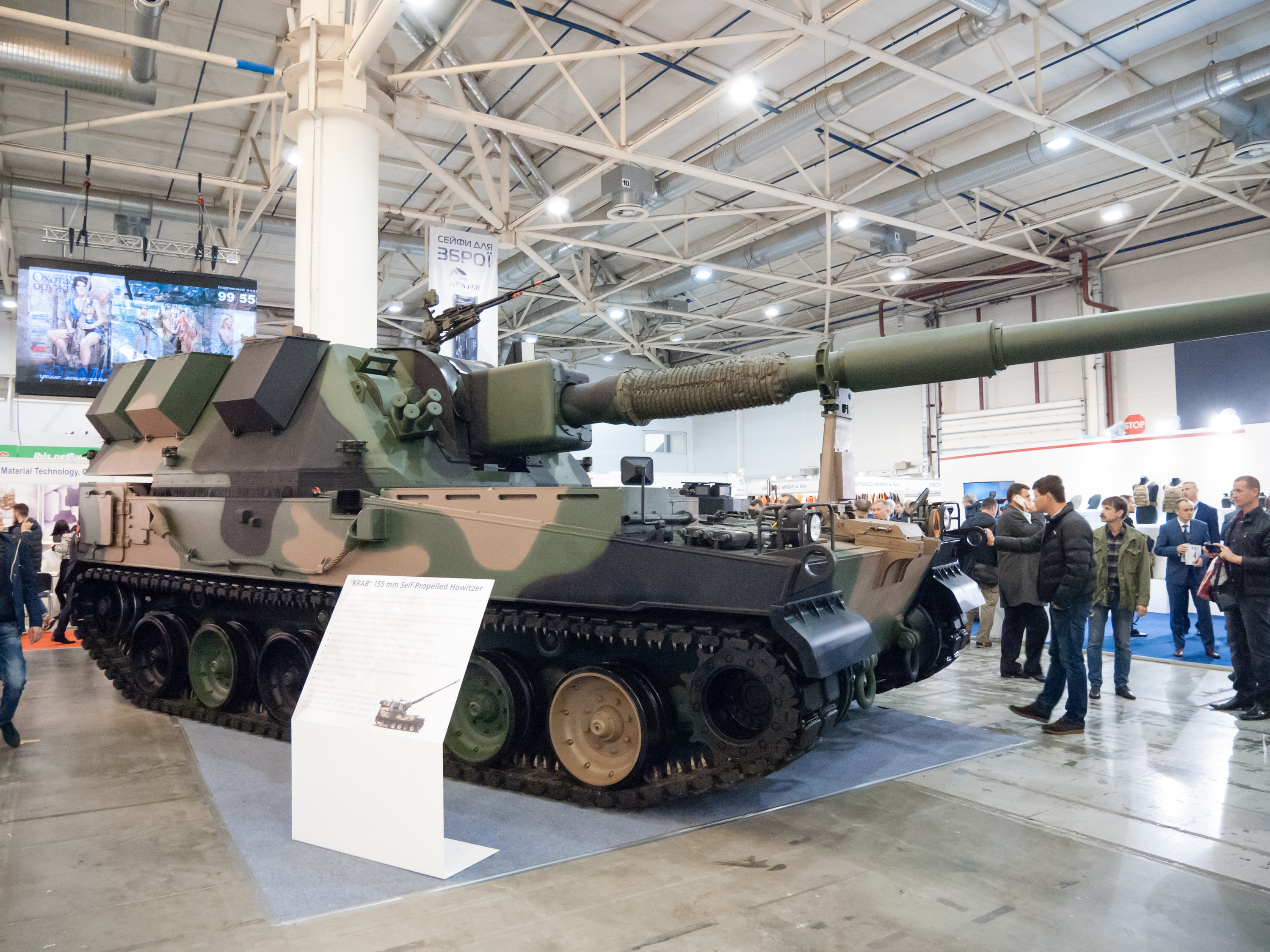 AHS Krab in Kyiv (Poland)